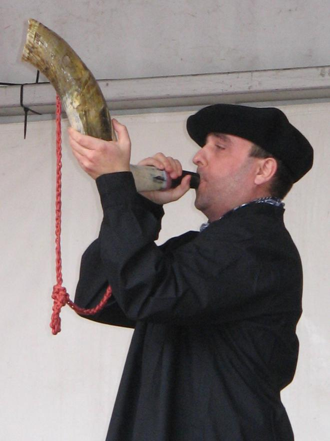 Blowing the horn in the Santo Tomas day